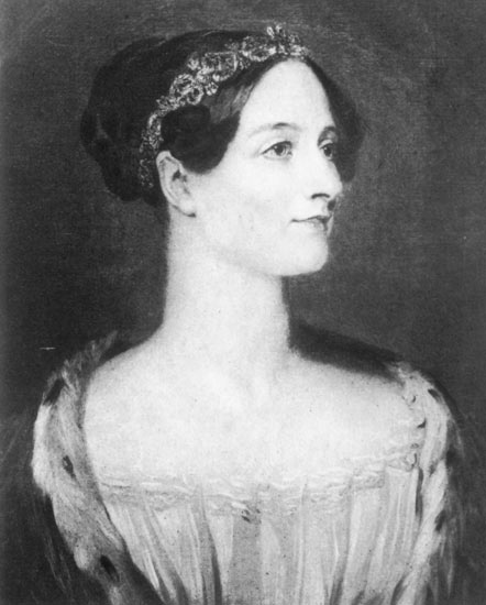 Portrait of Ada Lovelace